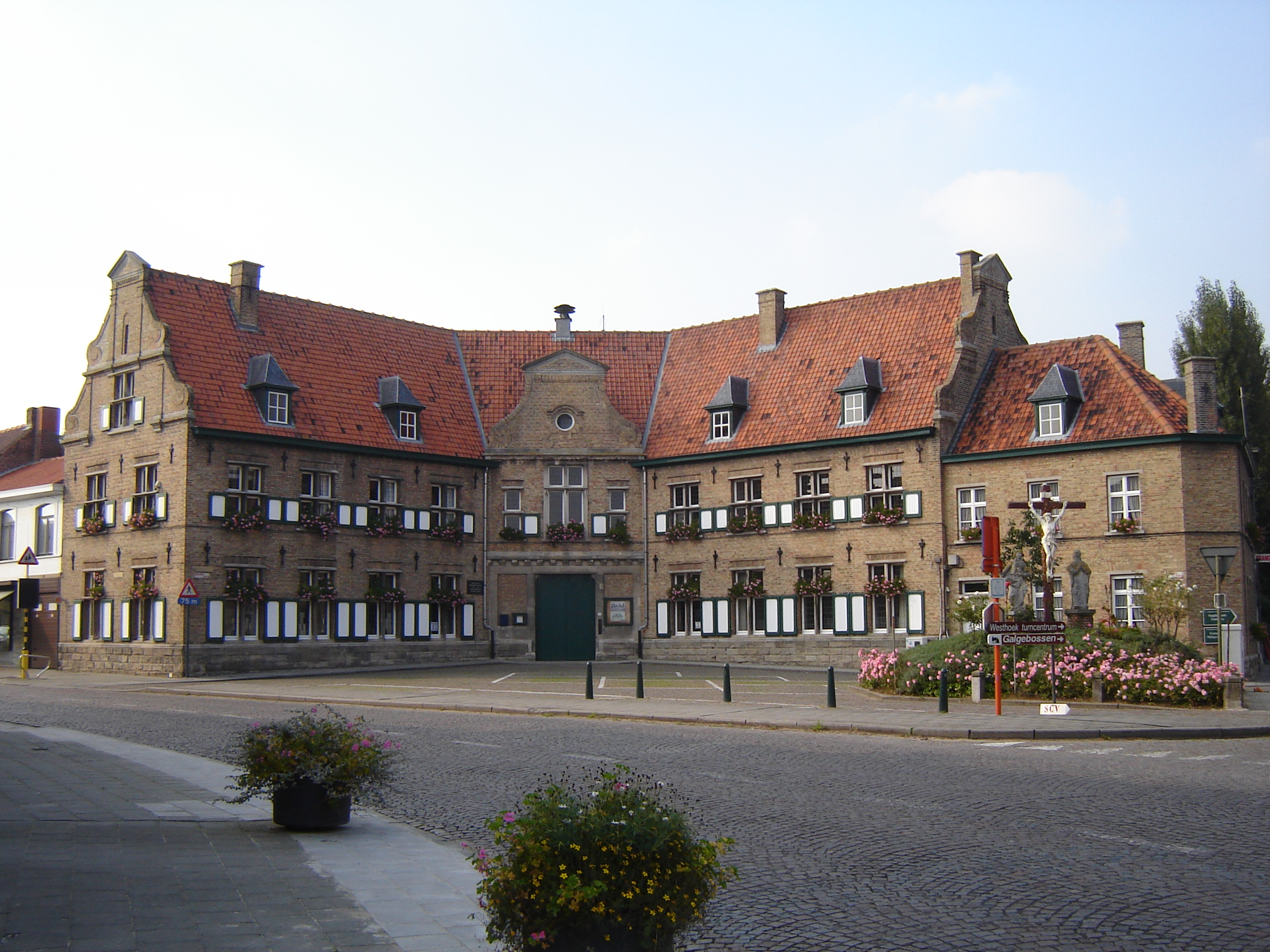 Former town hall Vlamertinge. Vlamertinge, Ieper, West Flanders, Belgium